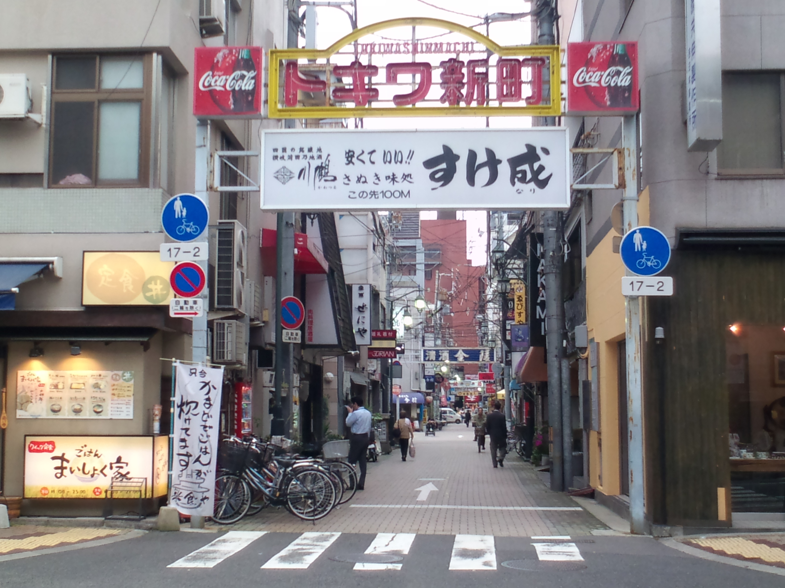 Tokiwa-shinmachi shōtengai, Takamatsu, Kagawa.